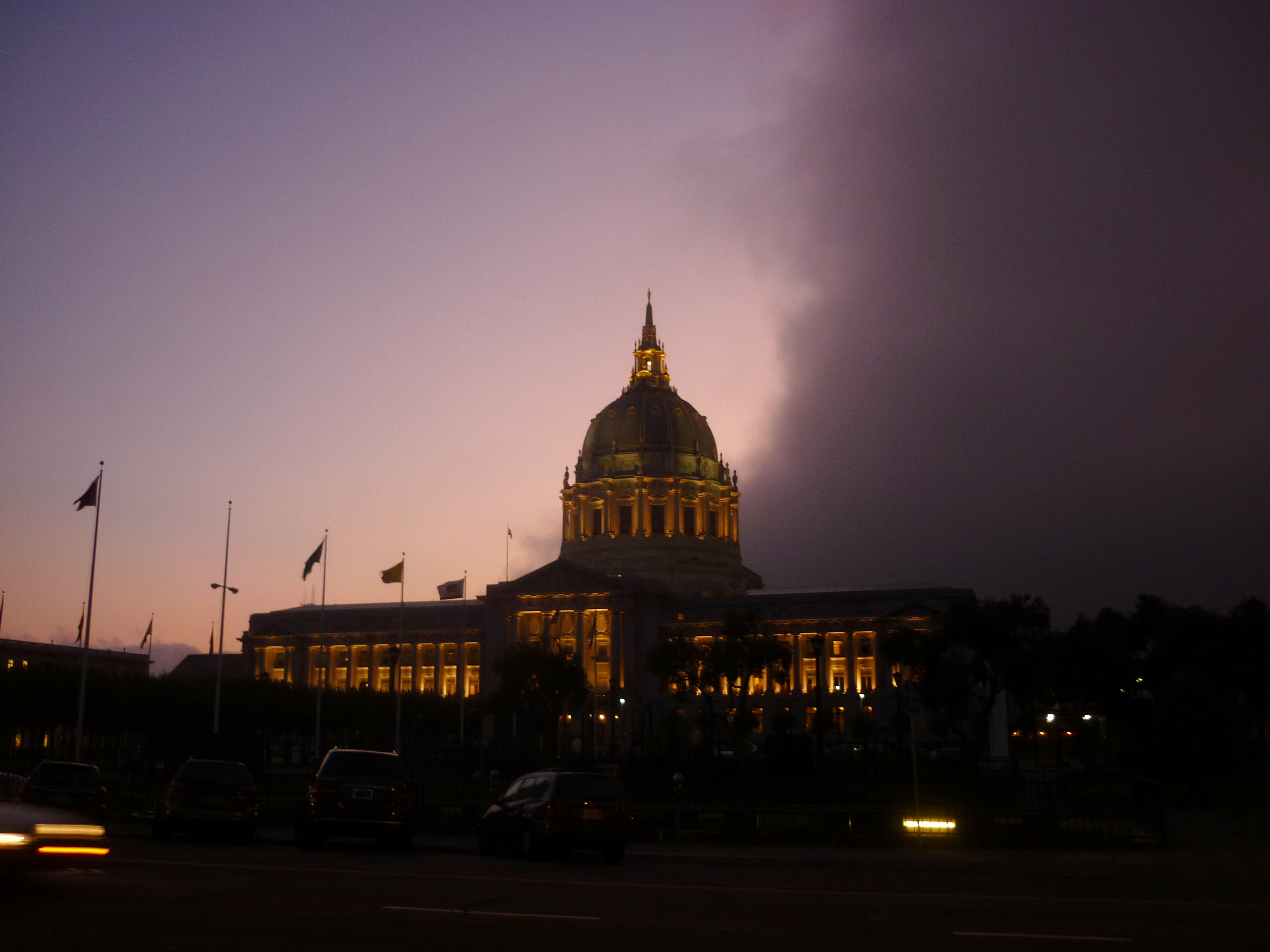 City Hall, San Francisco